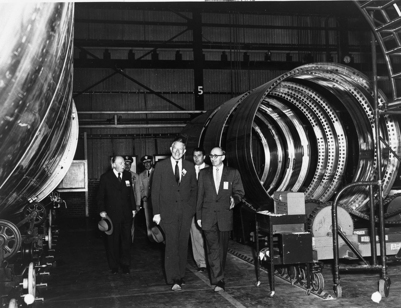 Secretary of Defense McElroy tours the Redstone Arsenal, where tanks for the Jupiter missile are under construction